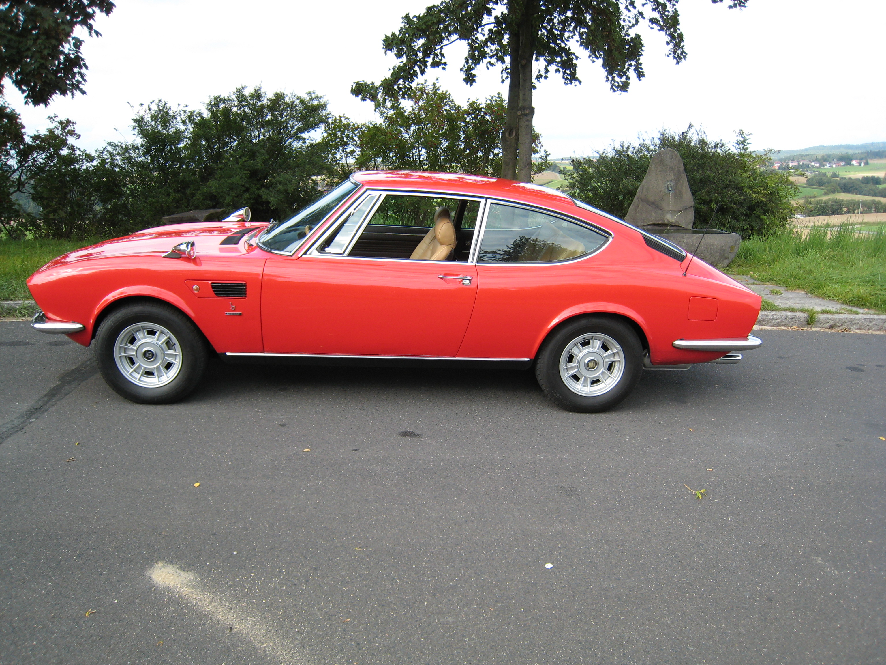 71 Fiat Dino 2400 Coupe